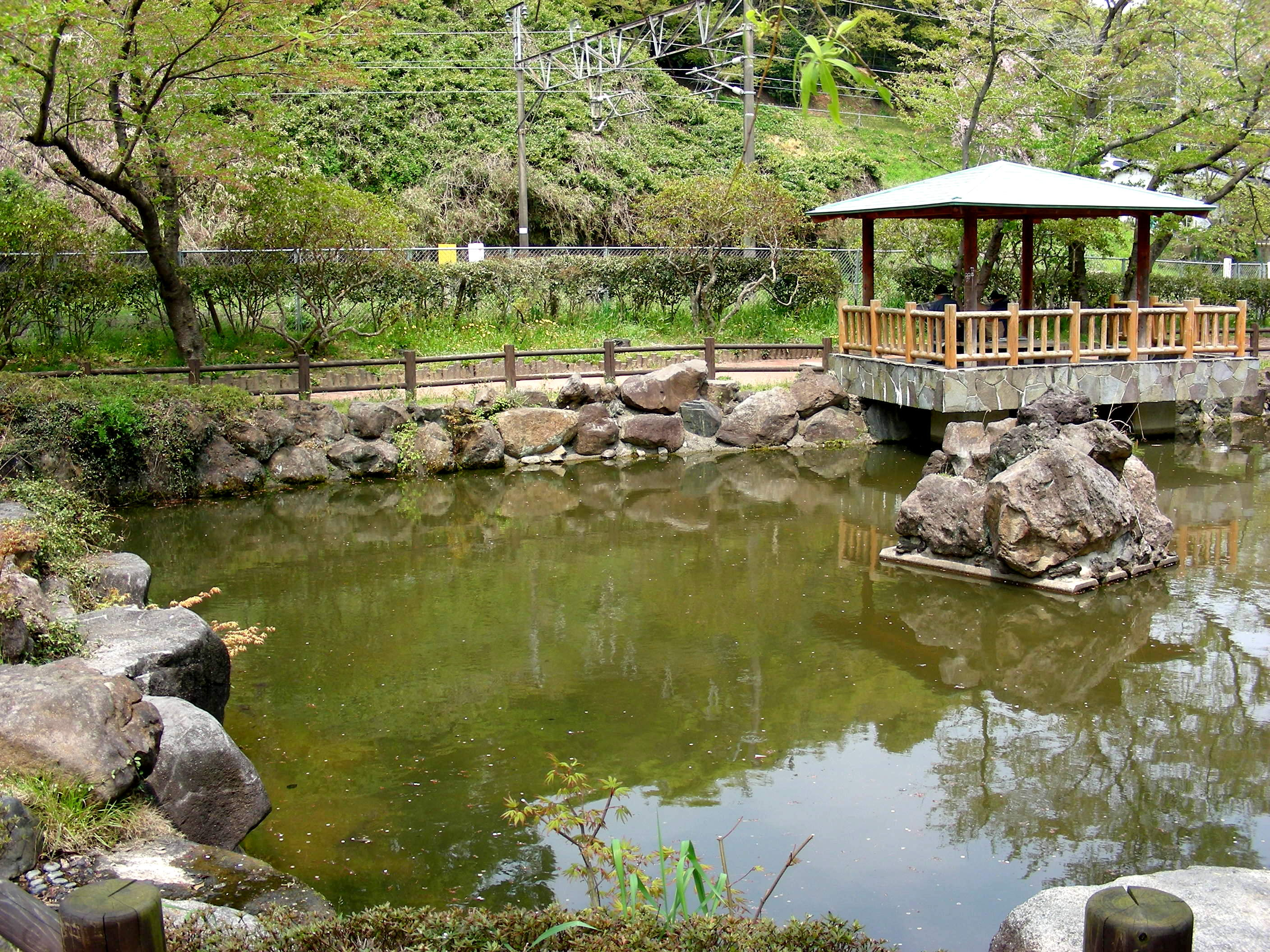 Pond in the Matsugaoka Park in Iwaki City, Fukushima Prefecture, Japan